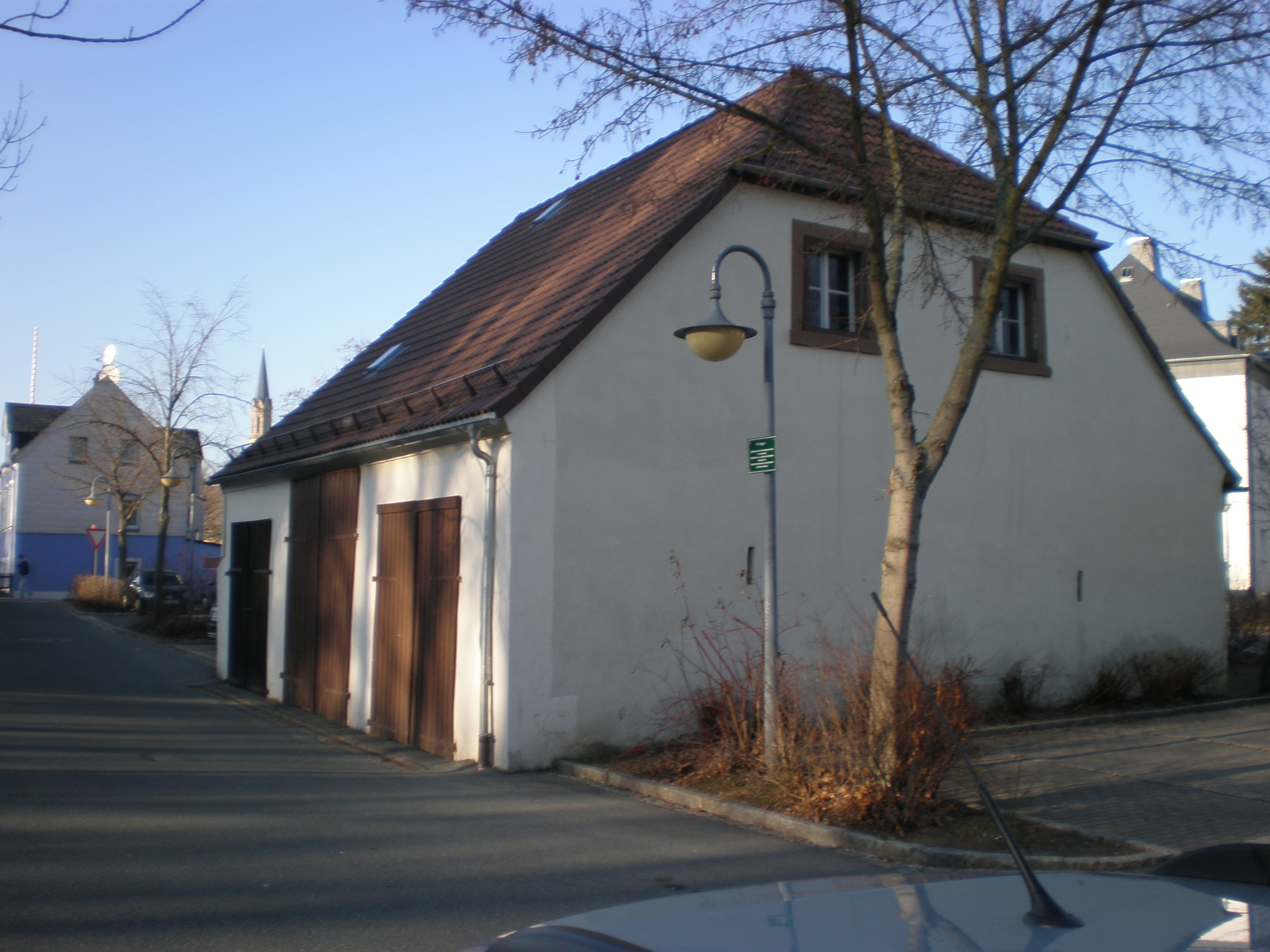 The "Anger" in Münchberg, where "citizens" were able to store their cultured plants.